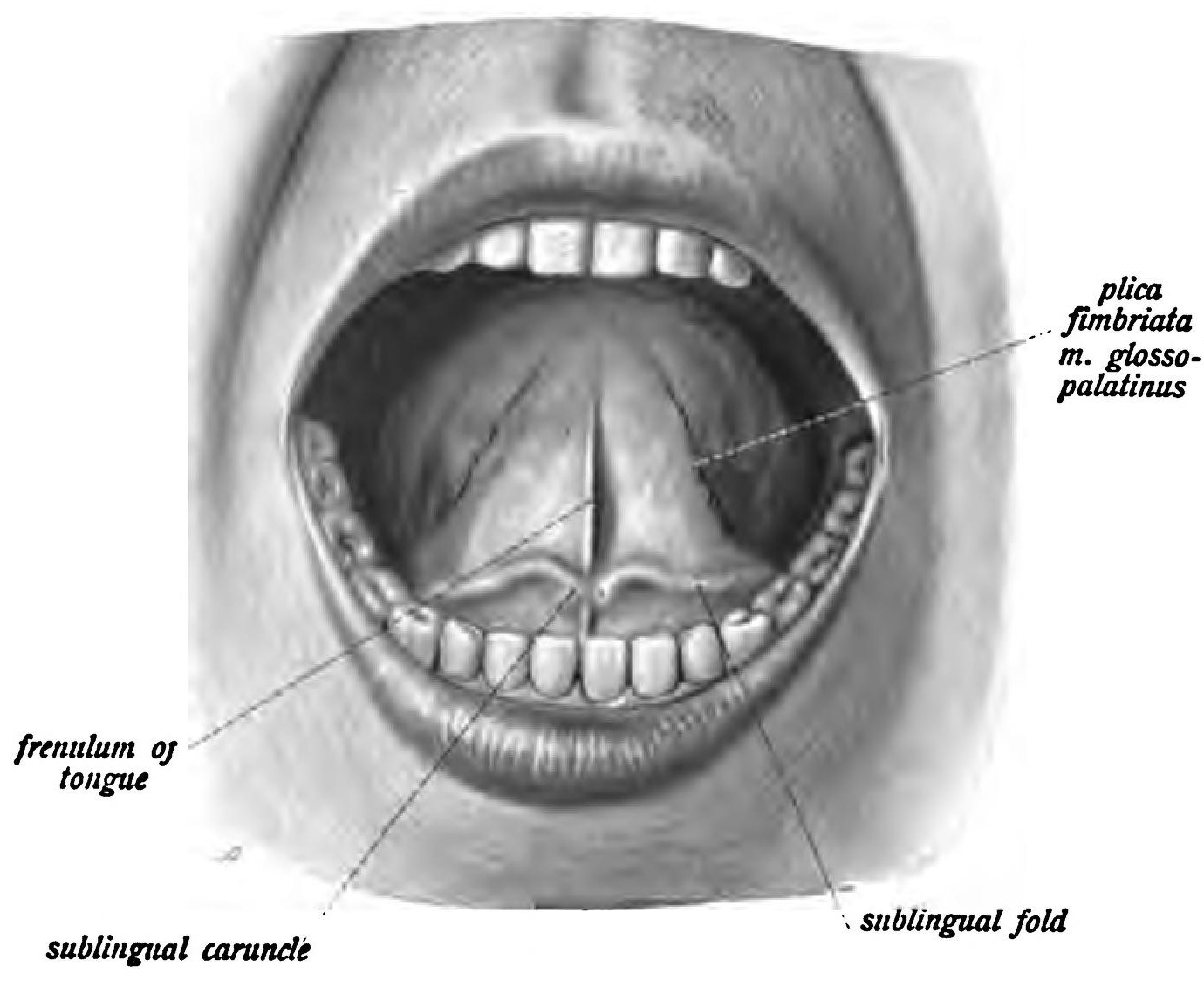 An anatomical illustration from the 1906 edition of Sobotta's Atlas and Text-book of Human Anatomy with English terminology.